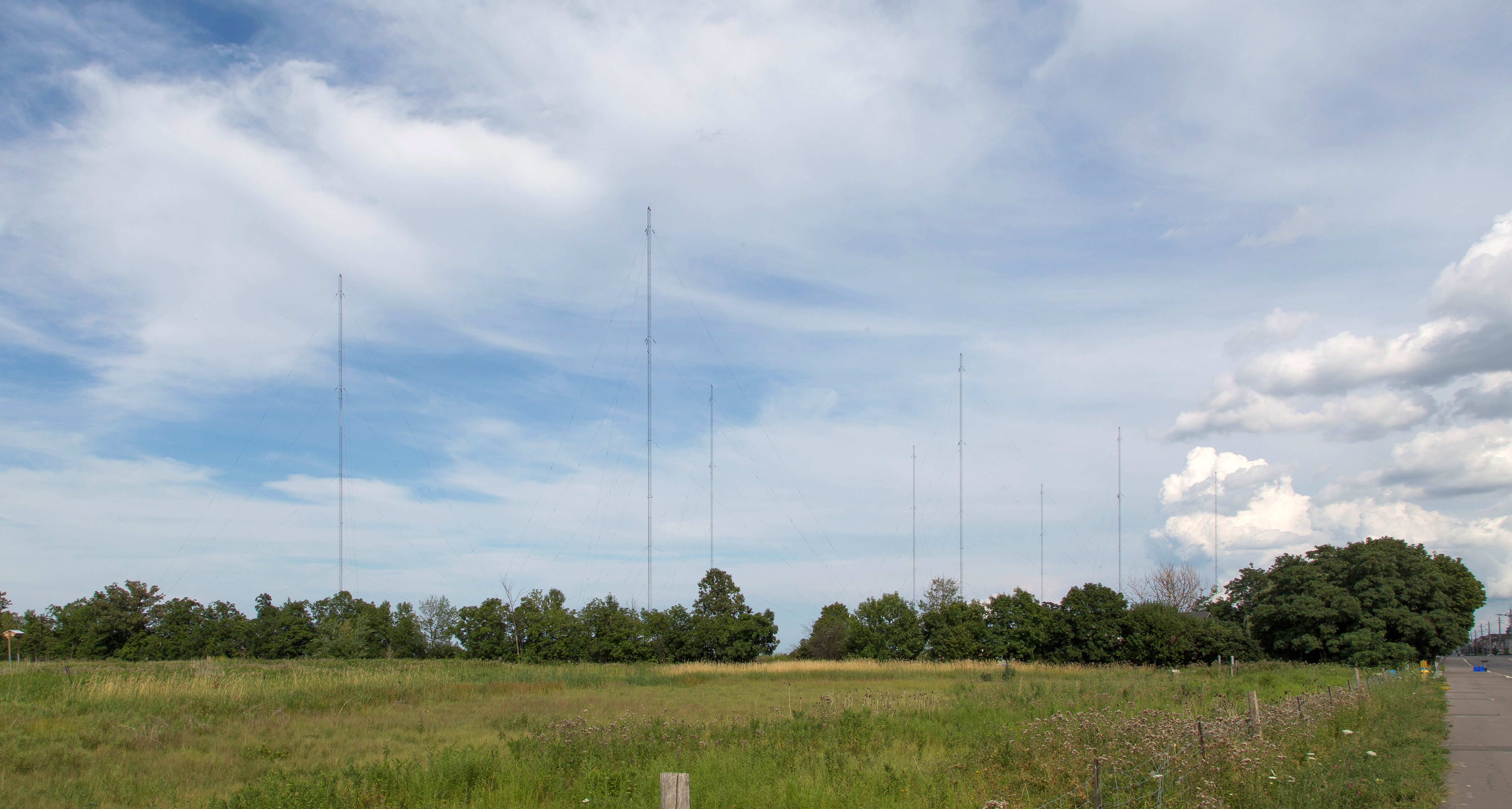 CFTR/680am, a Toronto news station, transmitting with 50,000 watts, using eight towers to beam across Lake Ontario at Toronto from Grimsby, Ontario.